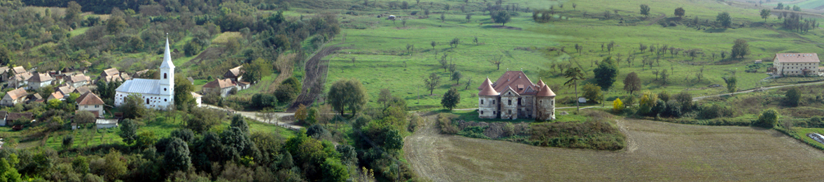 The village of Ozd (in Hungarian Magyarózd) lies in Romania, in central Transylvania, halfway between Cluj Napoca and Târgu Mureş. Bonus Pastor Foundation ( owns a small castle called Radák-Pekri Castle, with auxiliary buildings (granary, barn, stable) and 8 hectares of land. This property was donated to the Foundation by Baroness Maria Konredscheim.